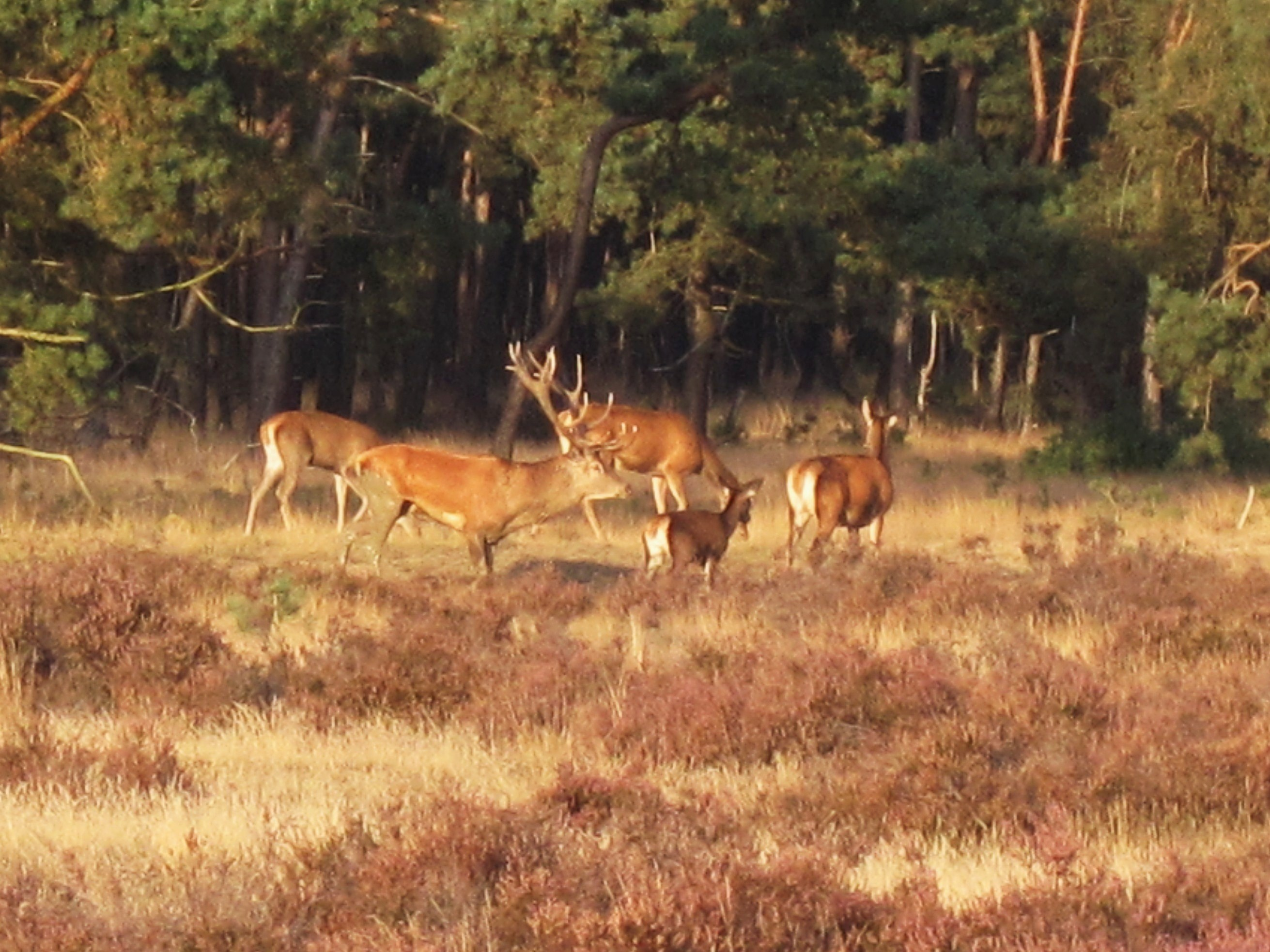 Cervus elaphus (Red deer), Veluwe, the Netherlands